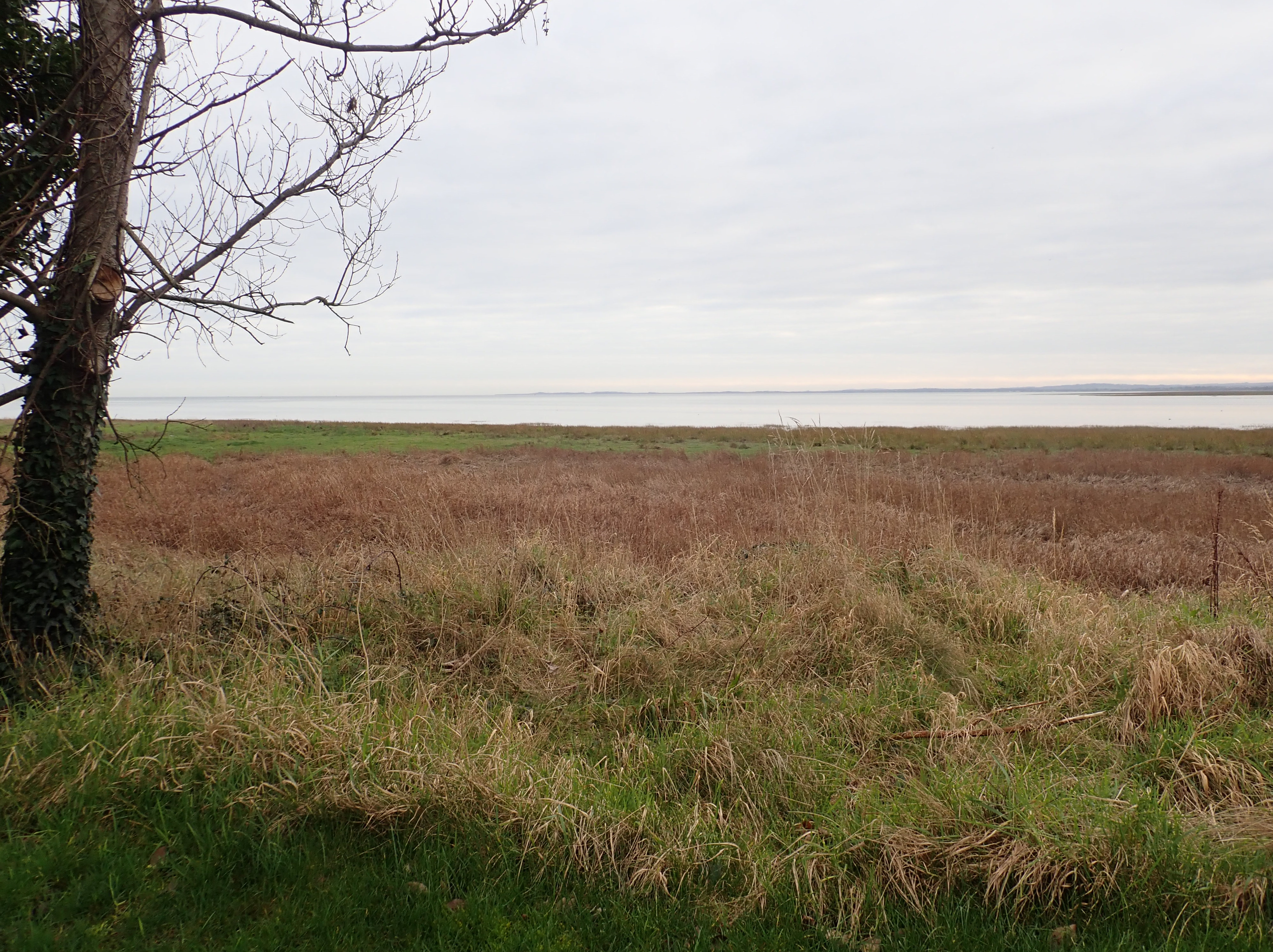 The Fane Estuary from the R172 at Blackrock